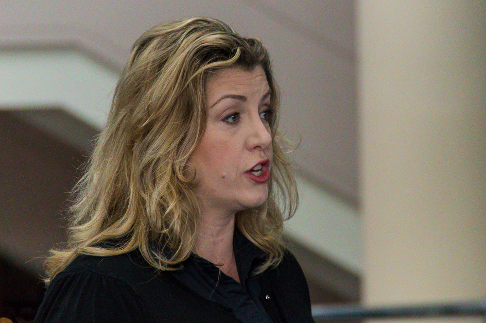 Penny Mordaunt, Conservative MP for Portsmouth North